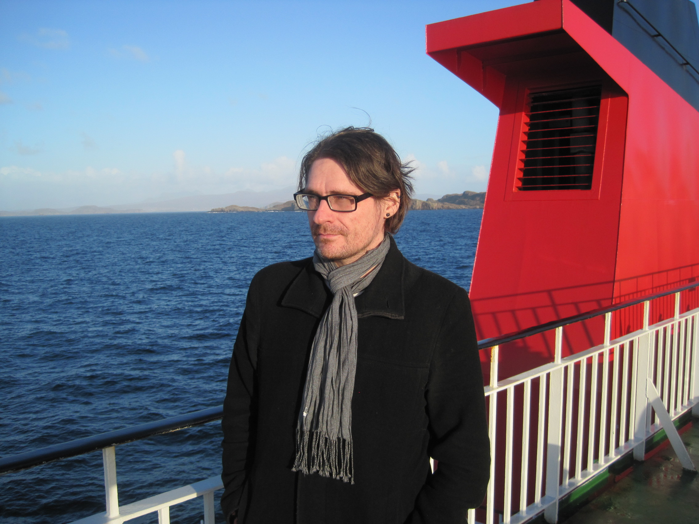 Kevin MacNeil on Stornoway to Ullapool ferry